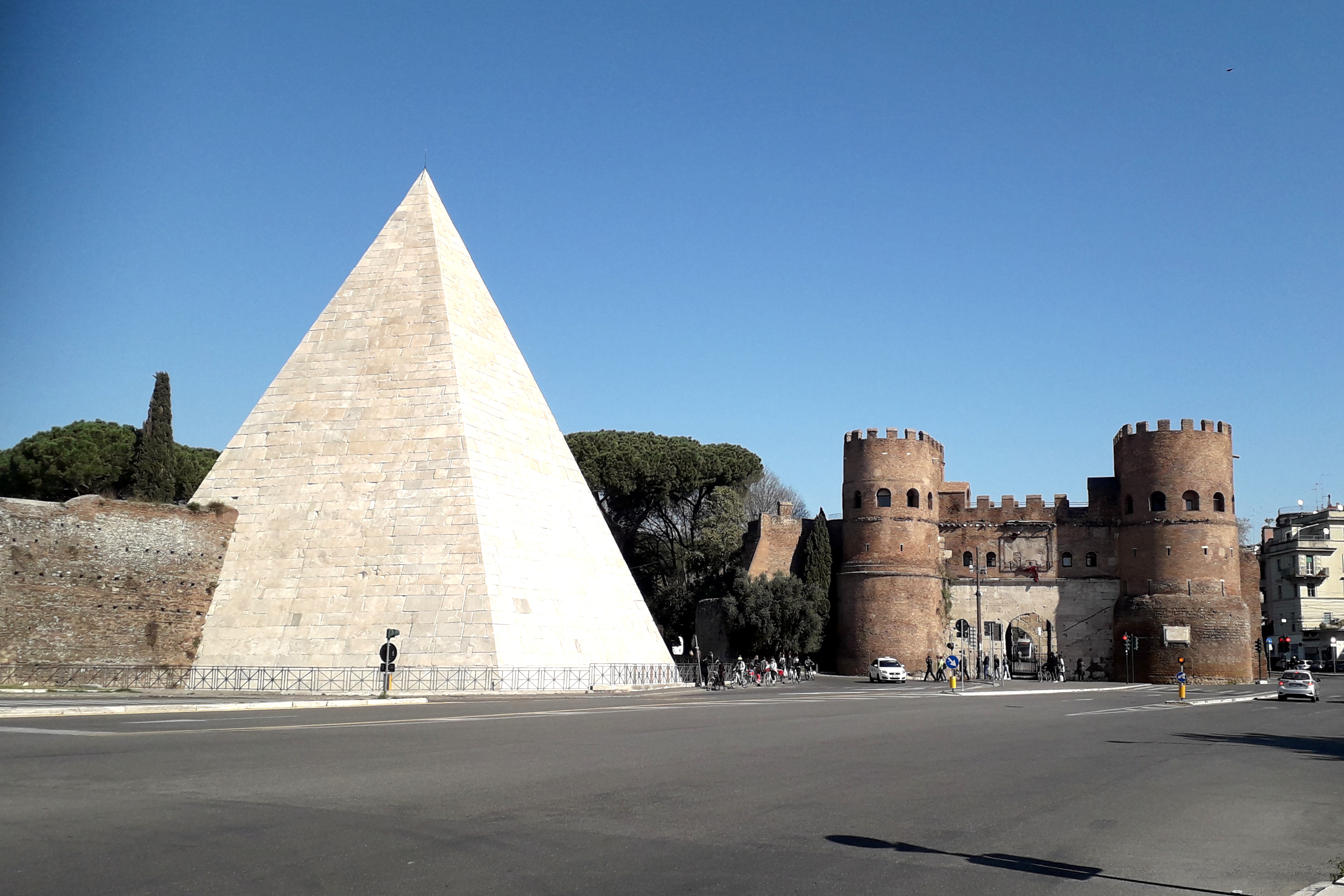 Rome, a view of Piazzale Ostiense with the Pyramid and Porta san Paolo